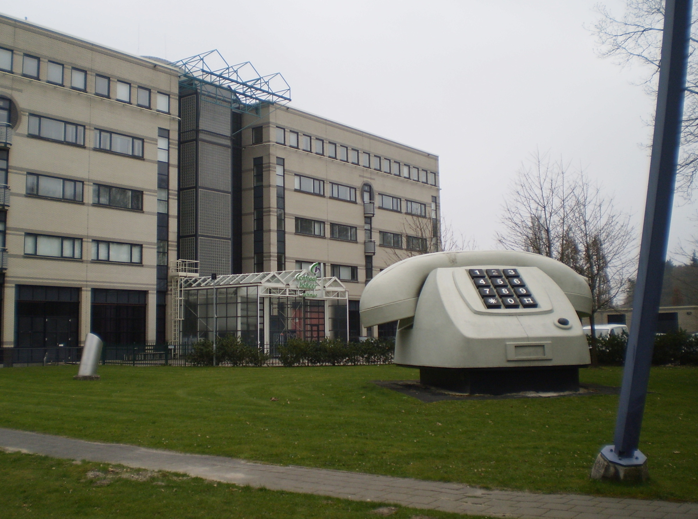 Centraal Beheer office, Apeldoorn, NL with a sculpture representing an Ericsson T-65/TDK in the foreground. Renovated in 2011. Moved to the company's parking space in December 2012